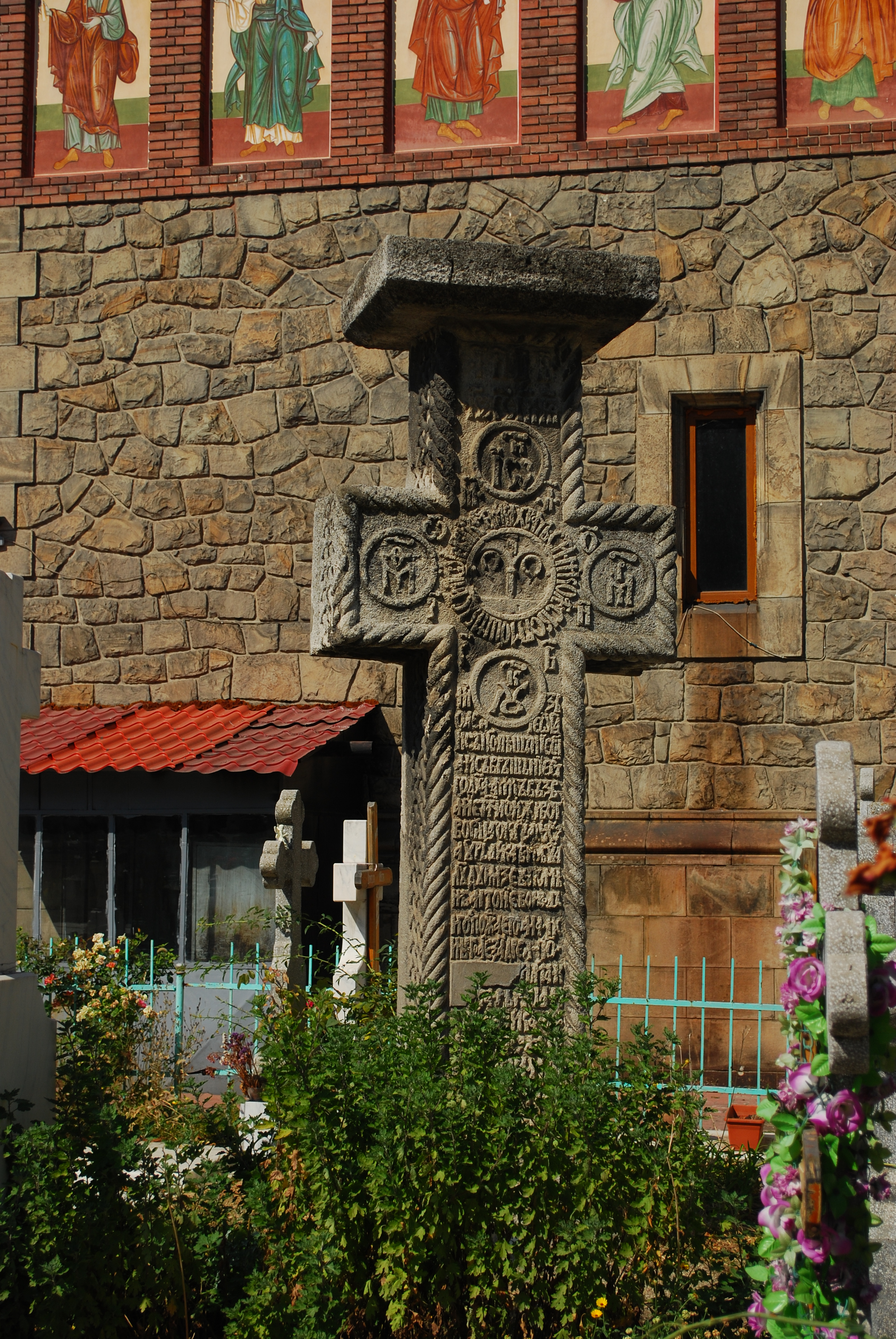 The cross of Antonie Vodă Ruset in the Cuţitul de Argint church cemetery, Bucharest, RomaniaRomână: Crucea lui Antonie Vodă Ruset în curtea bisericii Cuţitul de Argint, Bucureşti, România